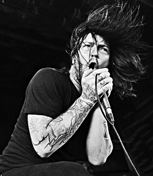 Photo by Mary Martin